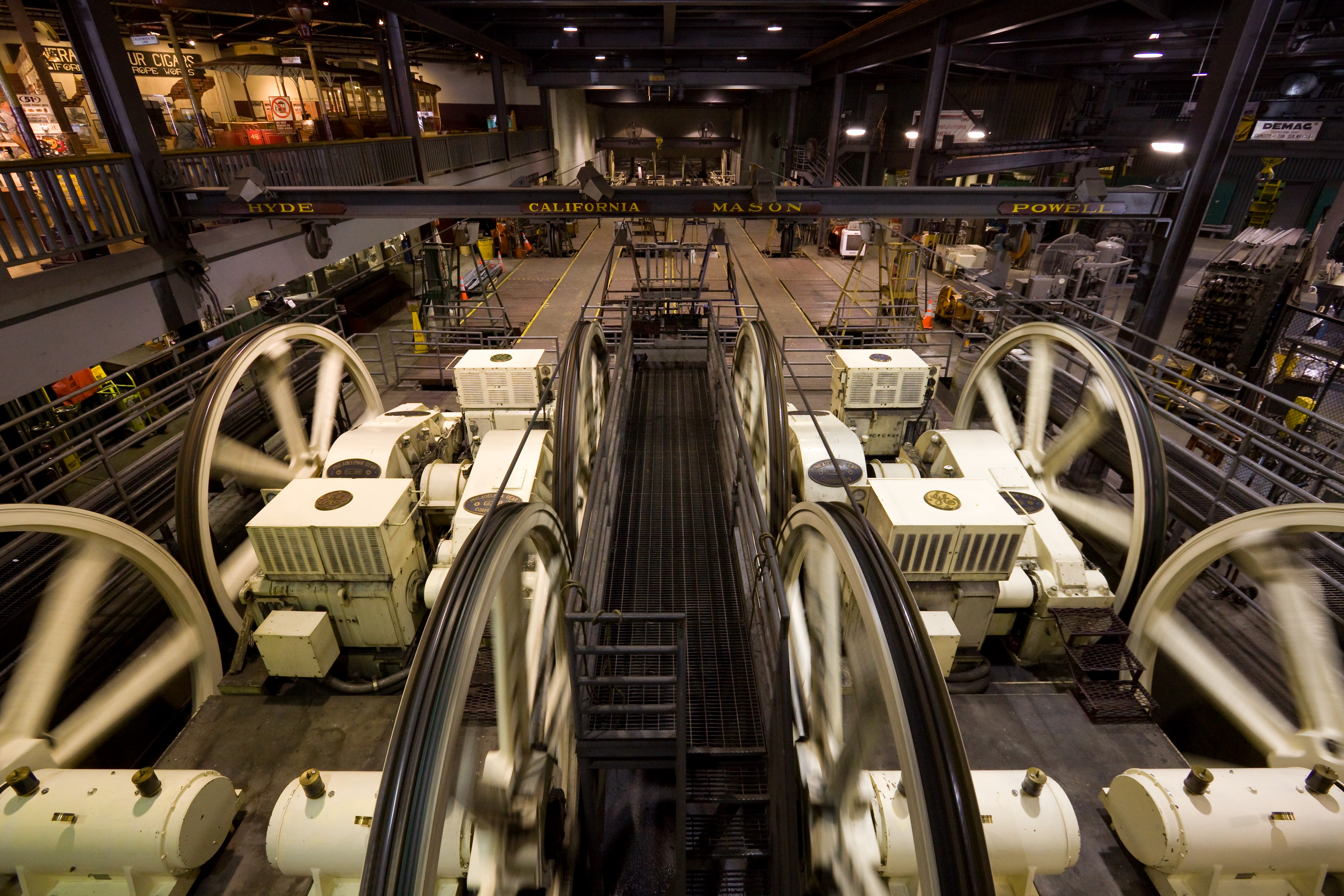 The power house of the San Francisco Cable Cars.